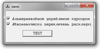 Orfo Switcher pre-perinatal version